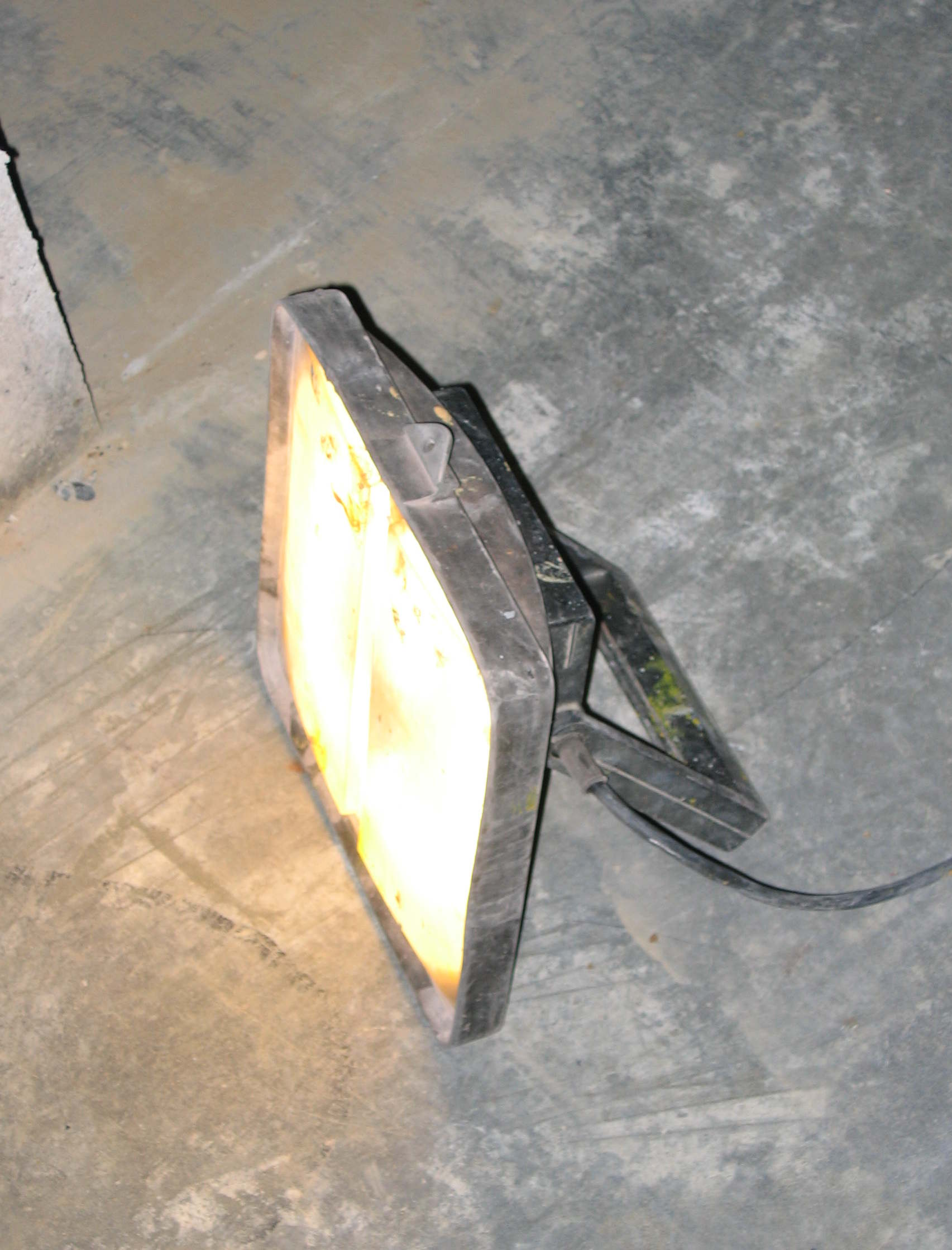 A picture of a portable (net-powered) CFL lamp, which is used here in building construction (to illuminate the cellar). Similar lamps are also used in mines, ...